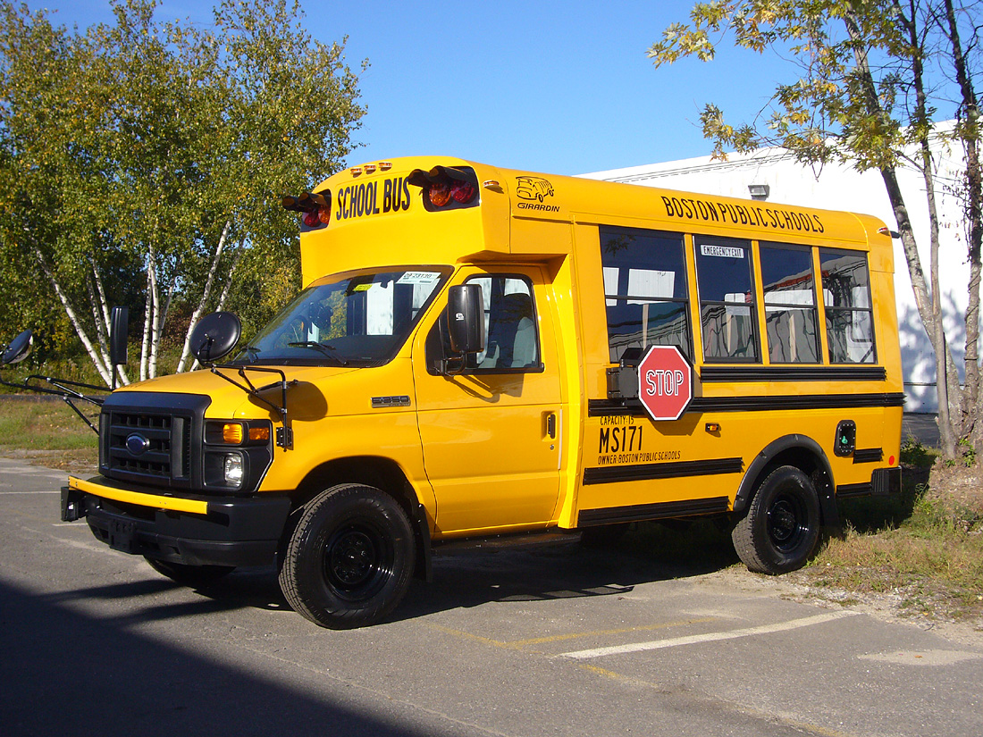 A 2010 Girardin MB-II school bus belonging to Boston Public Schools.